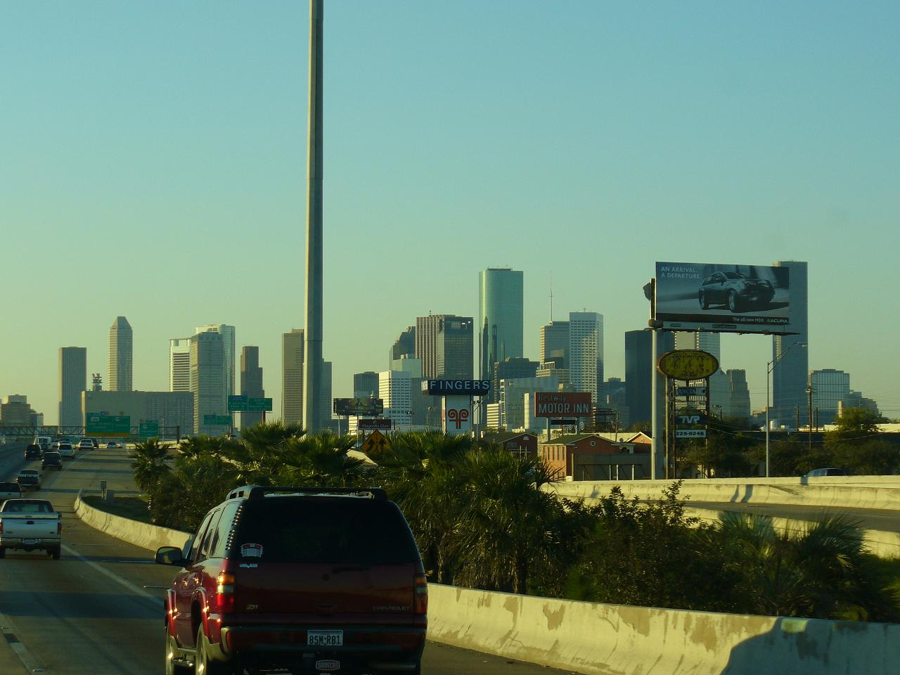 Downtown Houston from I-45 North